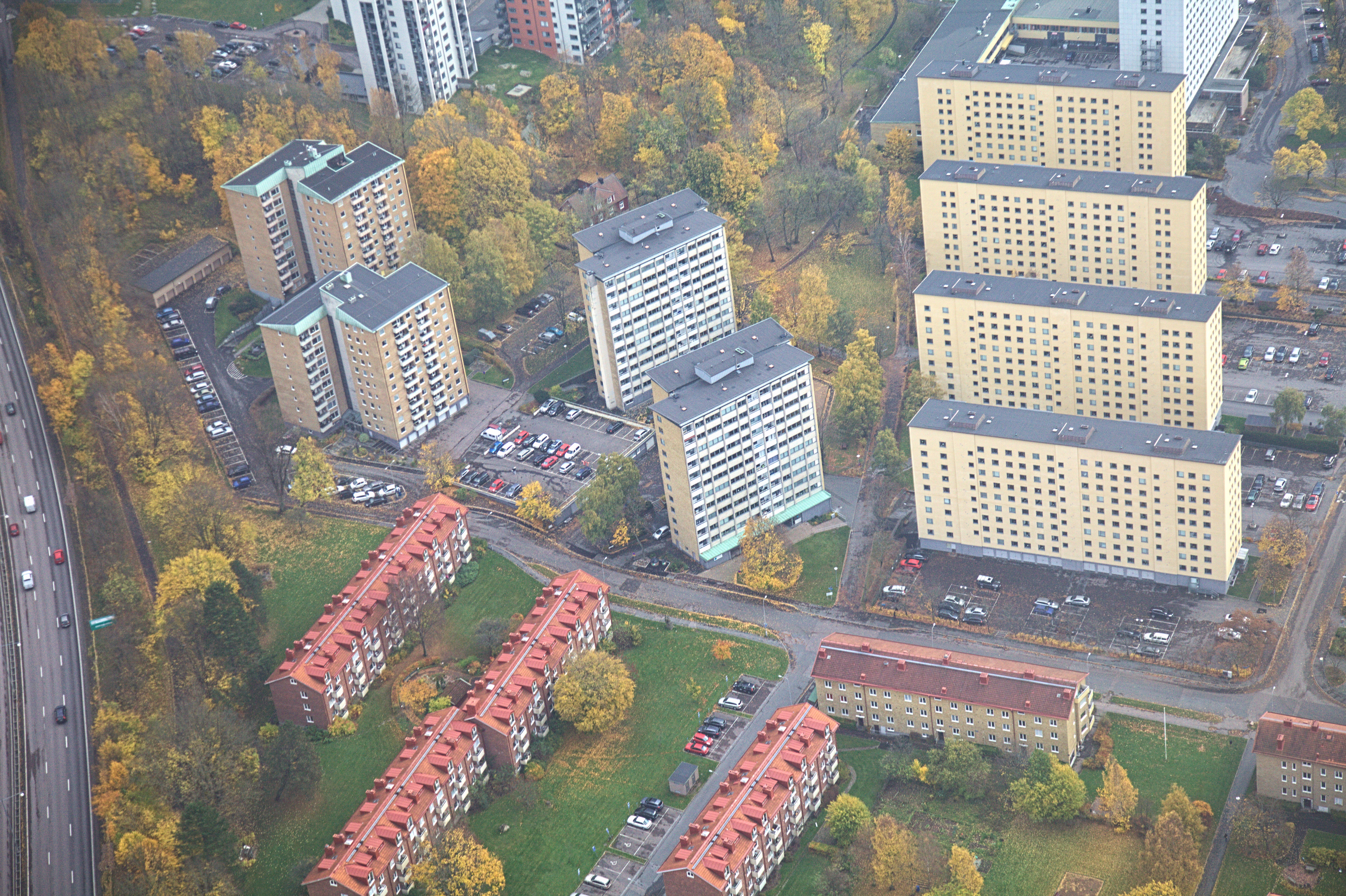 Photo taken on a helicopter over Gothenburg